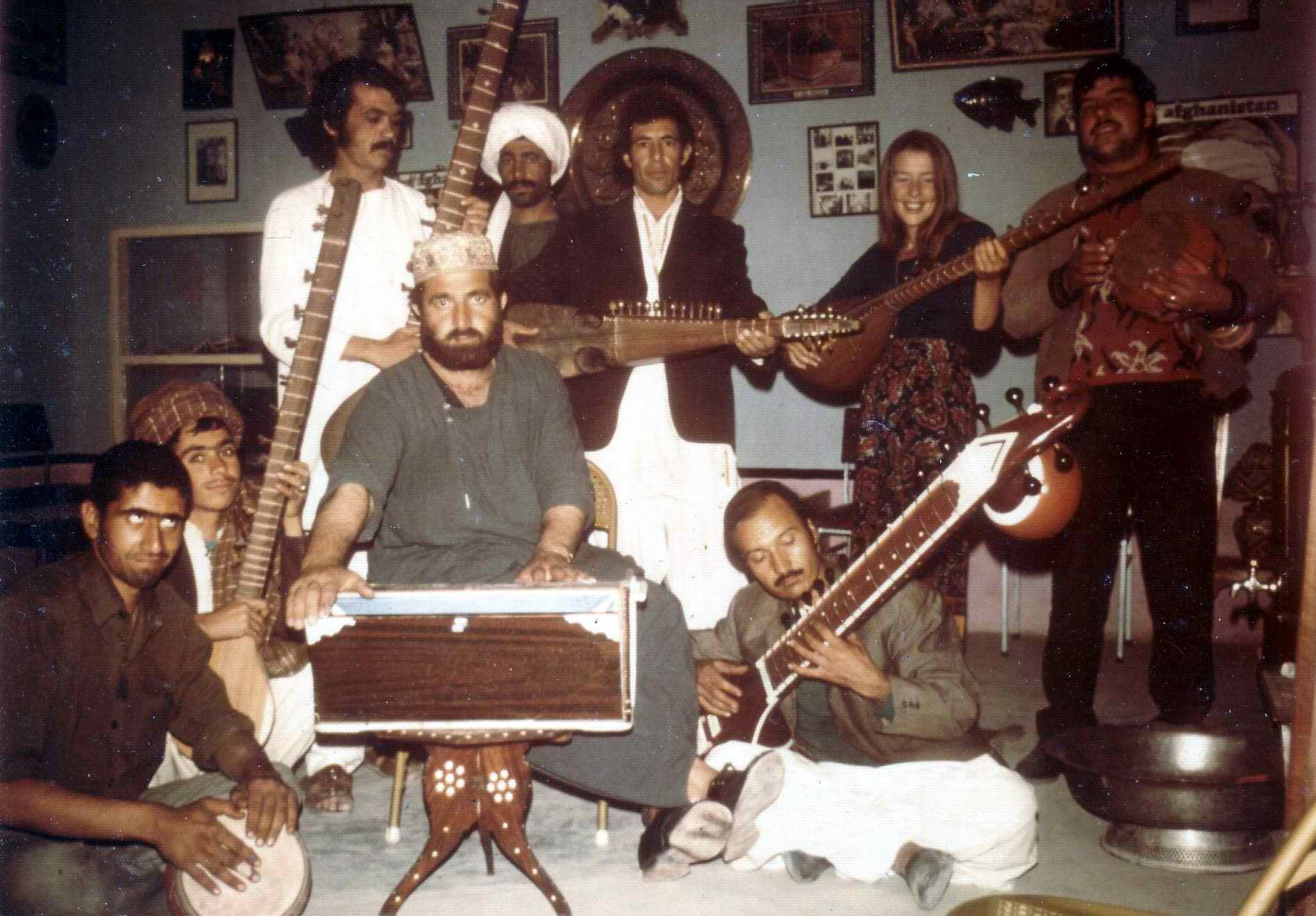 I took this photo was taken in Herat, Afghanistan in 1973